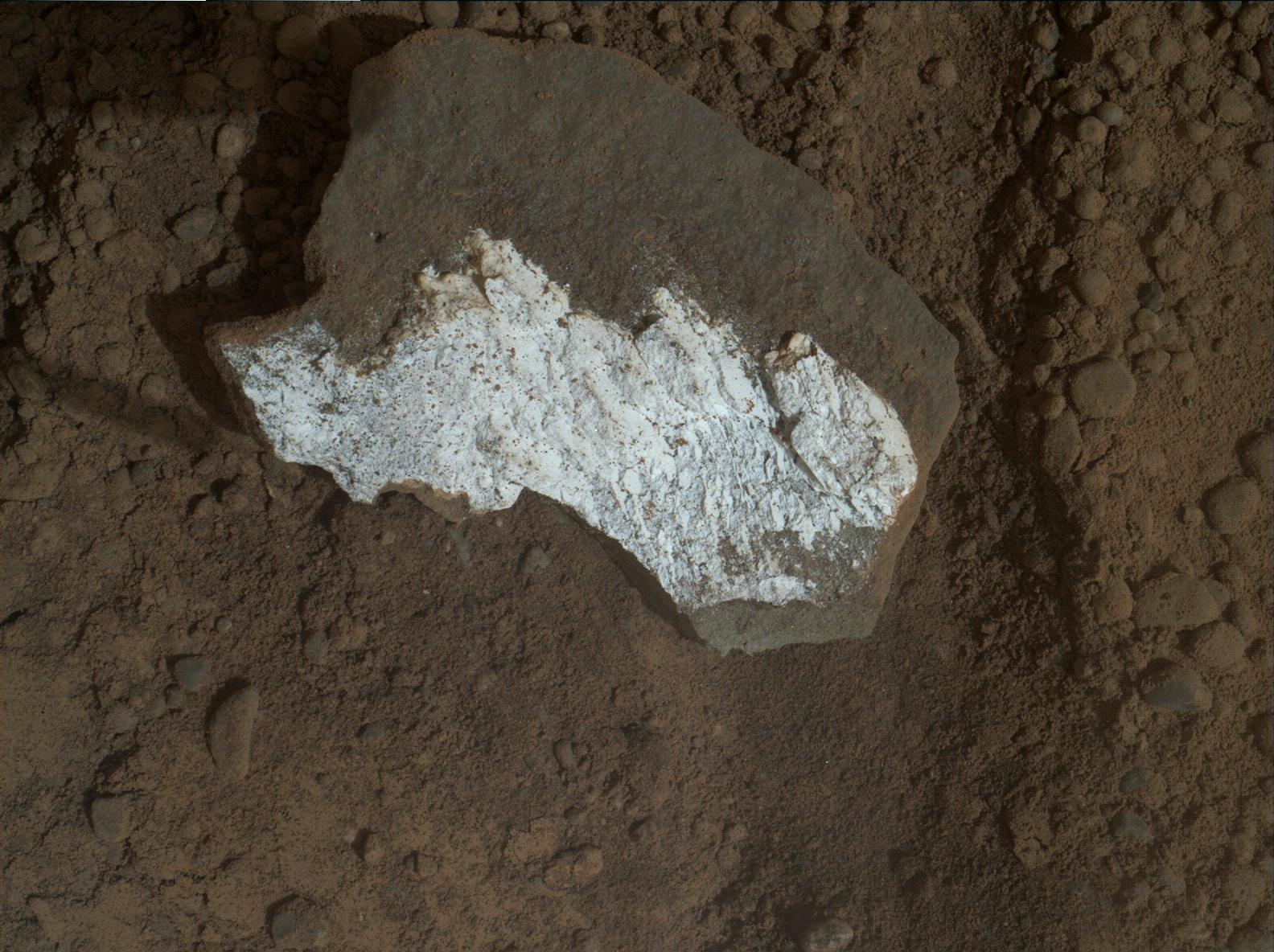 PIA16797: Close-up View of Broken Mars Rock 'Tintina' Target Name: Mars Is a satellite of: Sol (our sun) Mission: Mars Science Laboratory (MSL) Spacecraft: Curiosity Instrument: MAHLI Product Size: 1584 x 1184 pixels (width x height) Produced By: Malin Space Science Systems Full-Res TIFF: PIA16797.tif (5.628 MB) Full-Res JPEG: PIA16797.jpg (300.5 kB) Click on the image above to download a moderately sized image in JPEG format (possibly reduced in size from original) Original Caption Released with Image: This close-up view of "Tintina" was taken by the rover's Mars Hand Lens Imager (MAHLI) on Sol 160 (Jan. 17, 2013) and shows interesting linear textures in the bright white material on the rock. Curiosity studied Tintina with the Mast Camera (Mastcam) science filters on sols 160 and 162 (Jan. 17 and 19, 2013). The size of the rock is roughly 1.2 inches by 1.6 inches (3 centimeters by 4 centimeters). Malin Space Science Systems, San Diego, developed, built and operates MAHLI. NASA's Jet Propulsion Laboratory, Pasadena, Calif., manages the Mars Science Laboratory Project and the mission's Curiosity rover for NASA's Science Mission Directorate in Washington. The rover was designed and assembled at JPL, a division of the California Institute of Technology in Pasadena. More information about Curiosity is online at and Image Credit: NASA/JPL-Caltech/MSSS Image Addition Date: 2013-03-18